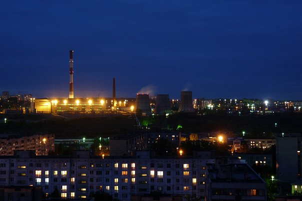 Orel TEC. Night view